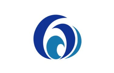 Flag of Minamiise Mie